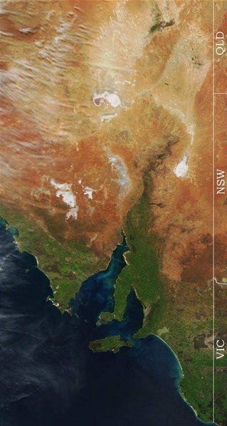 Eastern South Australia Satellite Photo